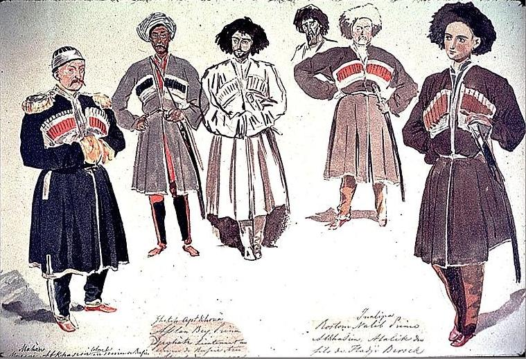 Abkhazians - by Prince Gagarin, 1840.